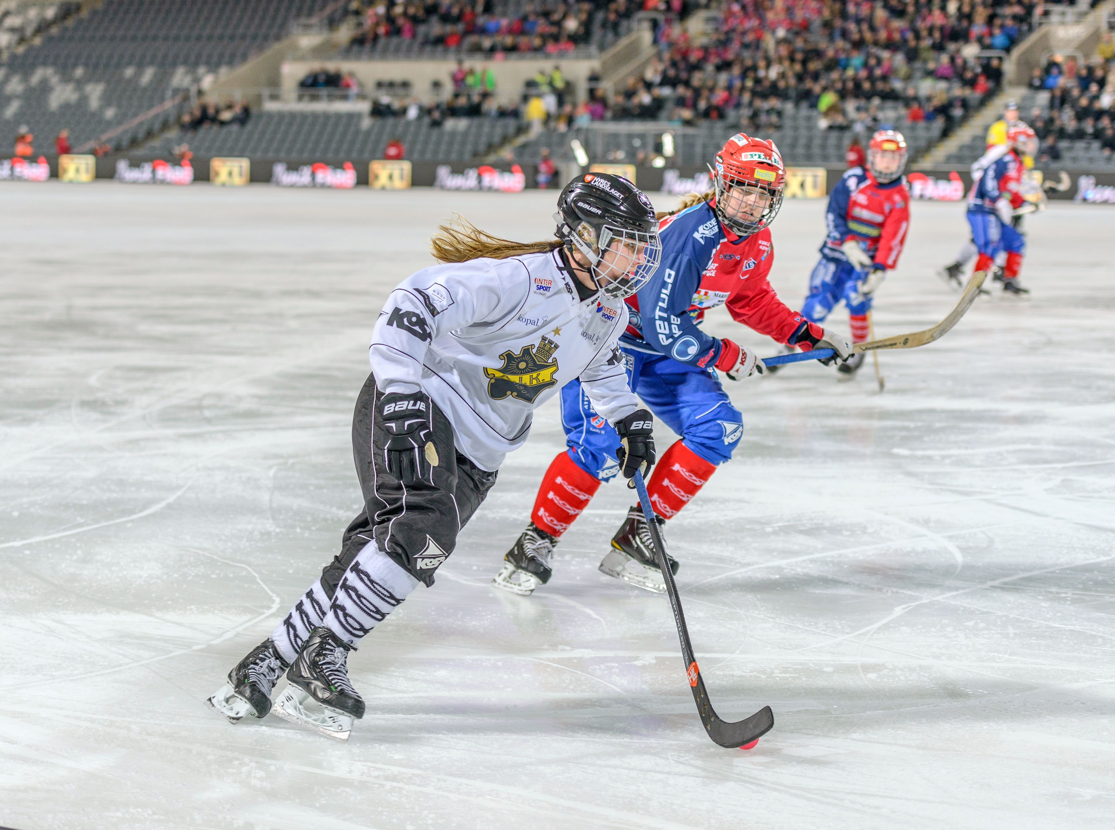 Swedish championship in bandy, final (women). Kareby 3 vs AIK 1.